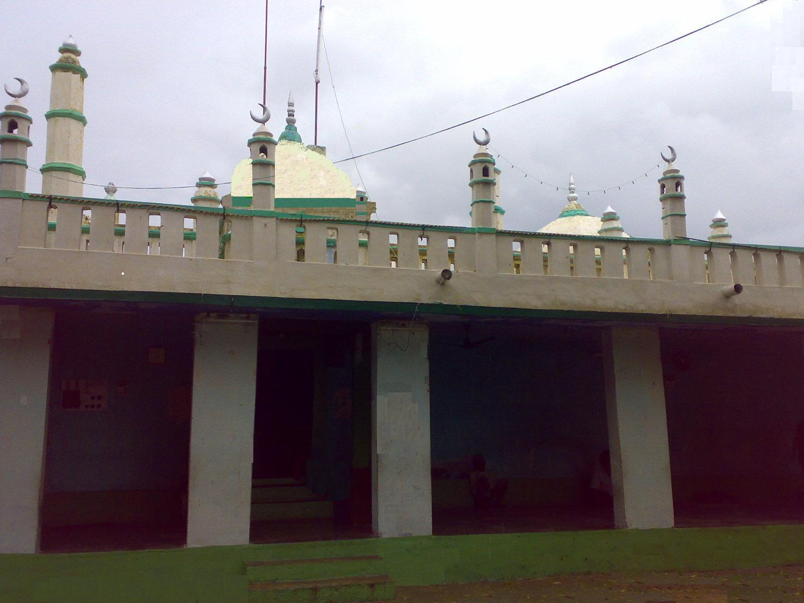 Dargah Of Hazrat Shamsuddeen Shaheed Vaippar, Tuticorin District, tamilnadu.